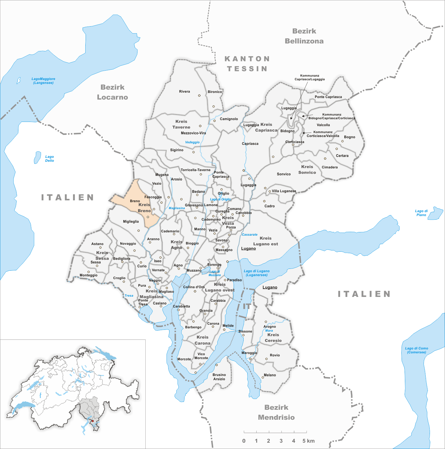 Municipality Breno Artist: Tschubby